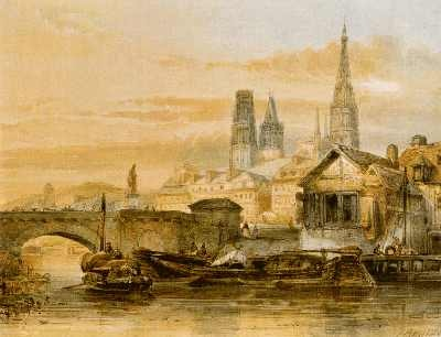 Gezicht op Rouaan